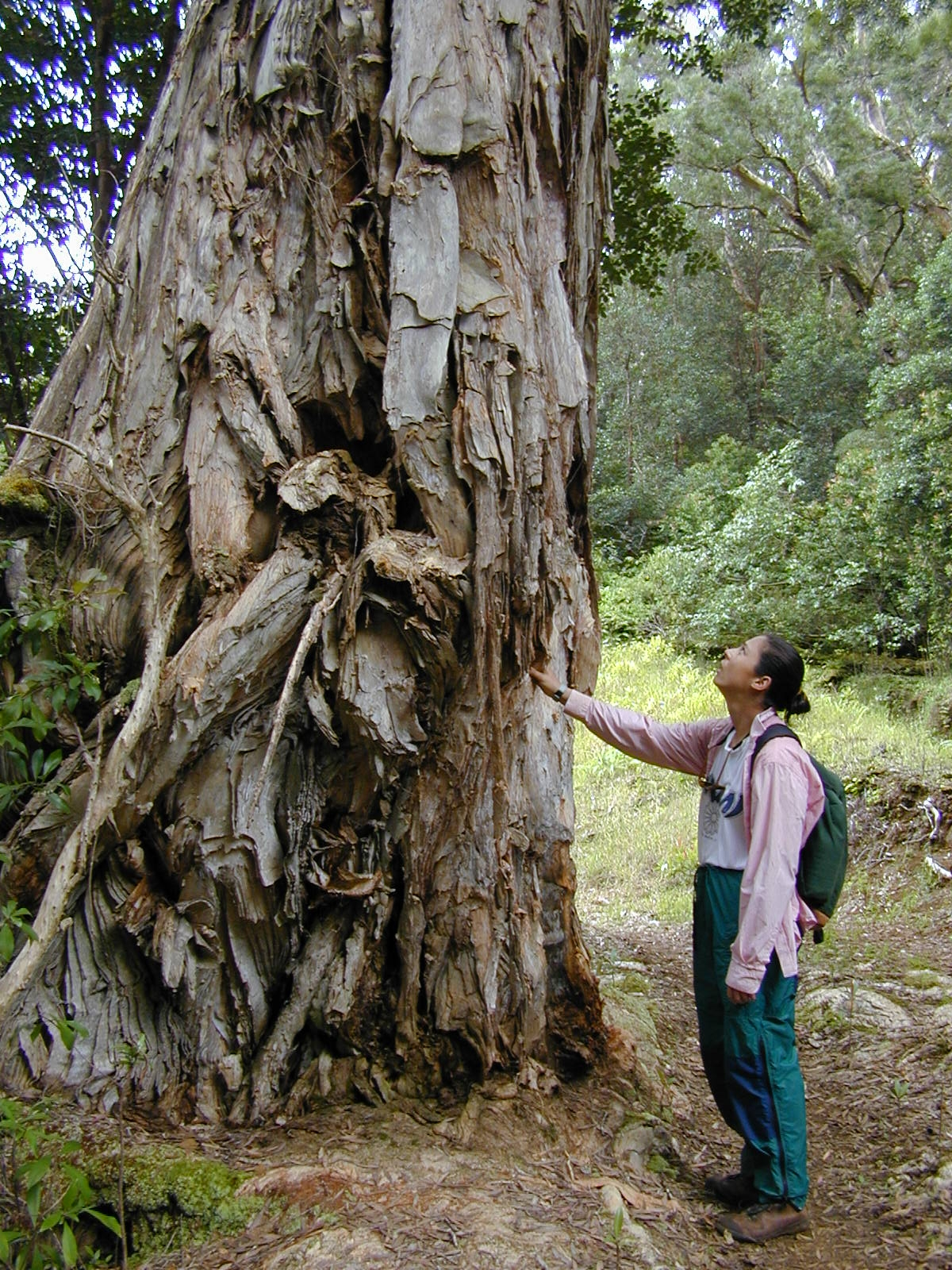 Melaleuca quinquenervia (large tree trunk with Kim). Location: Maui, Wahinepee